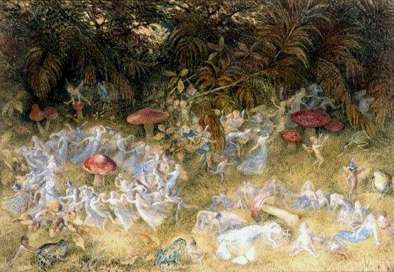 Fairy Rings and Toadstools; watercolor on paper; 50.00cm x 34.50cm high (19.69 inches x 13.58 inches)1875by Richard Doyle